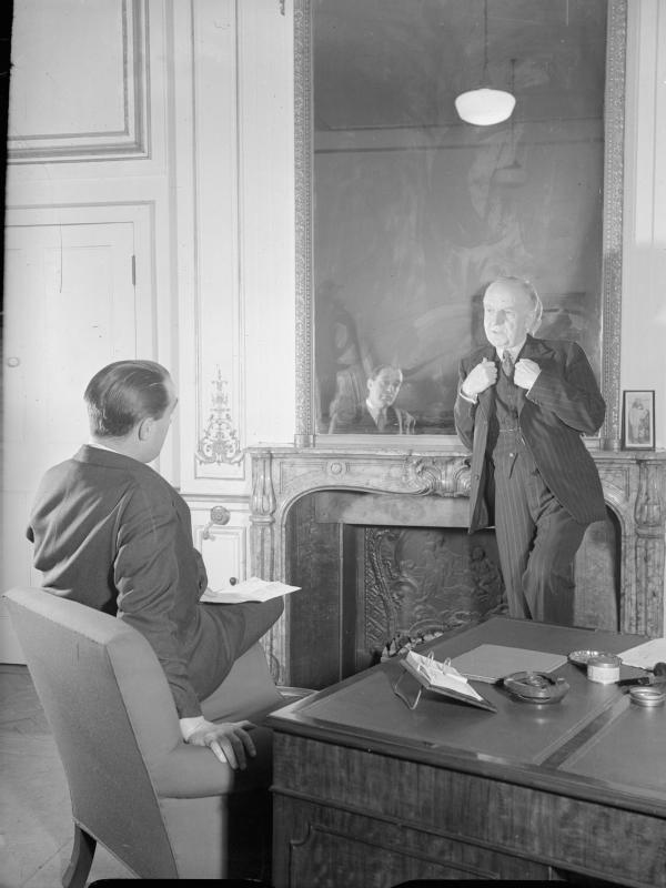 Lord Woolton Is Interviewed in London, England, UK, 1944 Minister for Reconstruction Lord Woolton stands by a fireplace with his hands on his lapels as he is interviewed by Howard Marshall for a broadcast to troops in North Africa. According to the original caption, he is being asked "about his plans for the post war absorption of the forces into civil life". There is a large mirror over the fireplace, in which the reflection of interview Howard Marshall can be clearly seen.